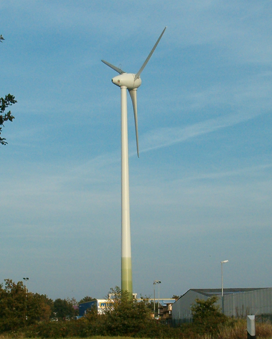 Enercon E-30 wind energy converter in Aurich/Germany.